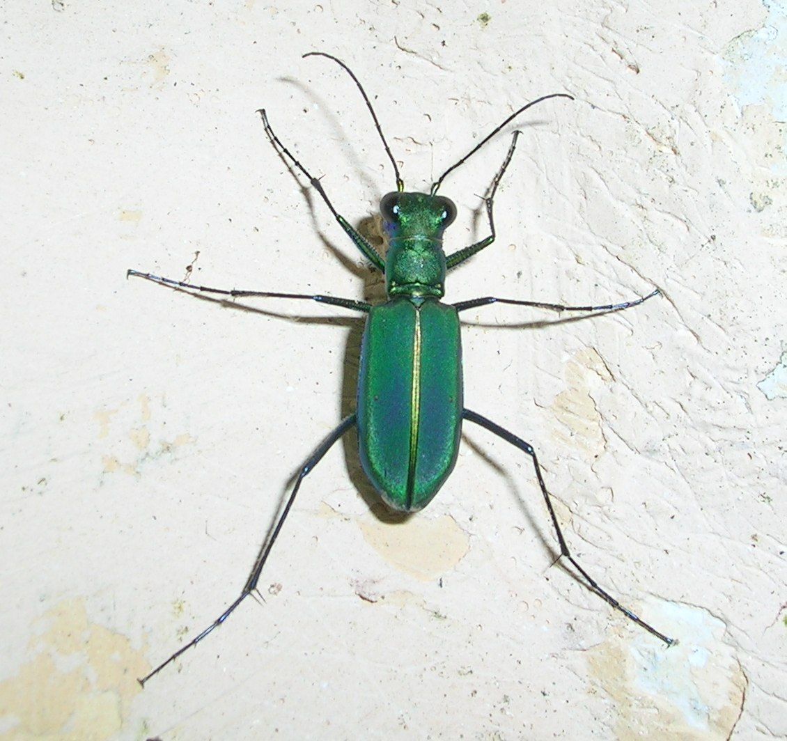 Cicindela (Calochroa) cf. whithilli (Hope) - green tiger beetle at light, Talakaveri, Coorg, India. Determined by L. Shyamal on basis of description in Acciavatti and Pearson.